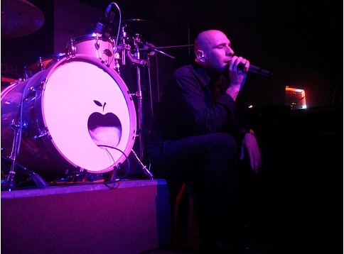 Gripin's singer, Birol Namoglu on stage